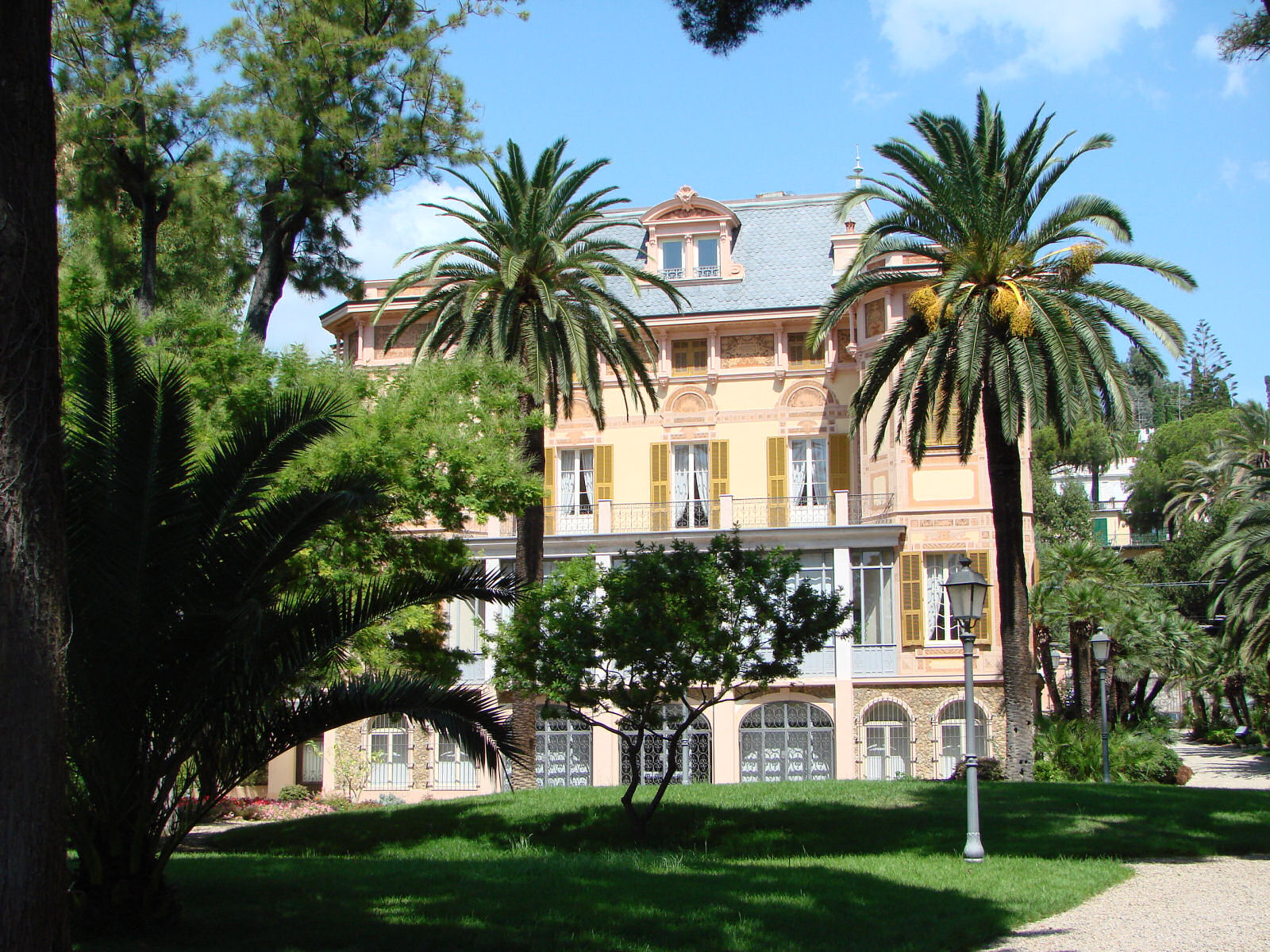 Alfred Nobel - Rear of Villa Nobel at Sanremo